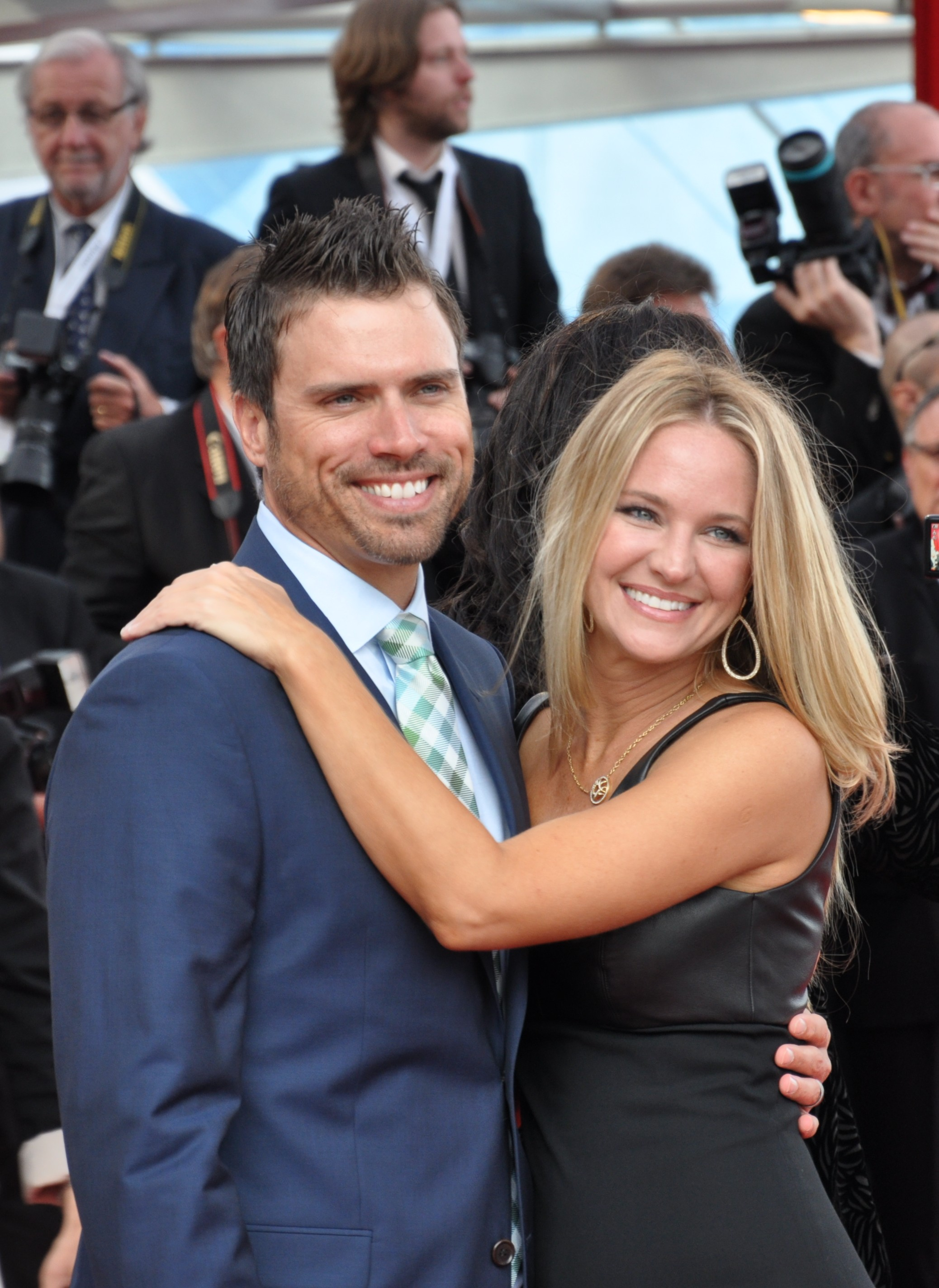 Joshua Morrow and Sharon Case at the 2013 Monte-Carlo Television Festival.